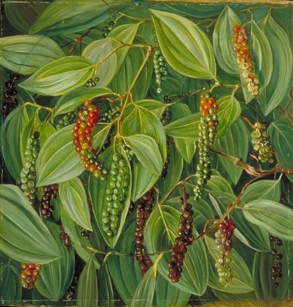 Black Gold from Anakkara